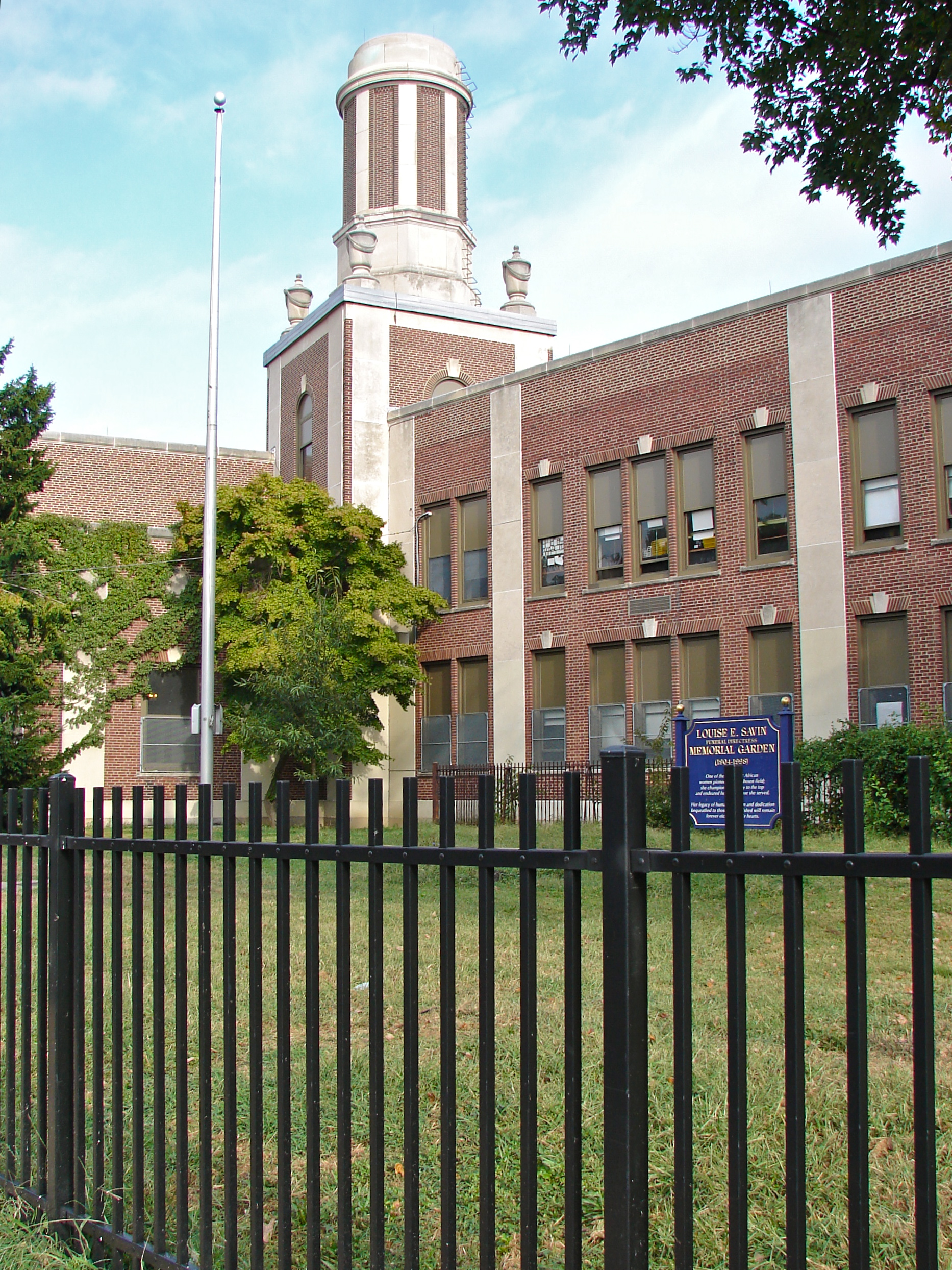 William Rowen School in Philadelphia on the NRHP since November 18, 1988. At 6841 North 19th St. in the North Philly neighborhood of West Oak Lane